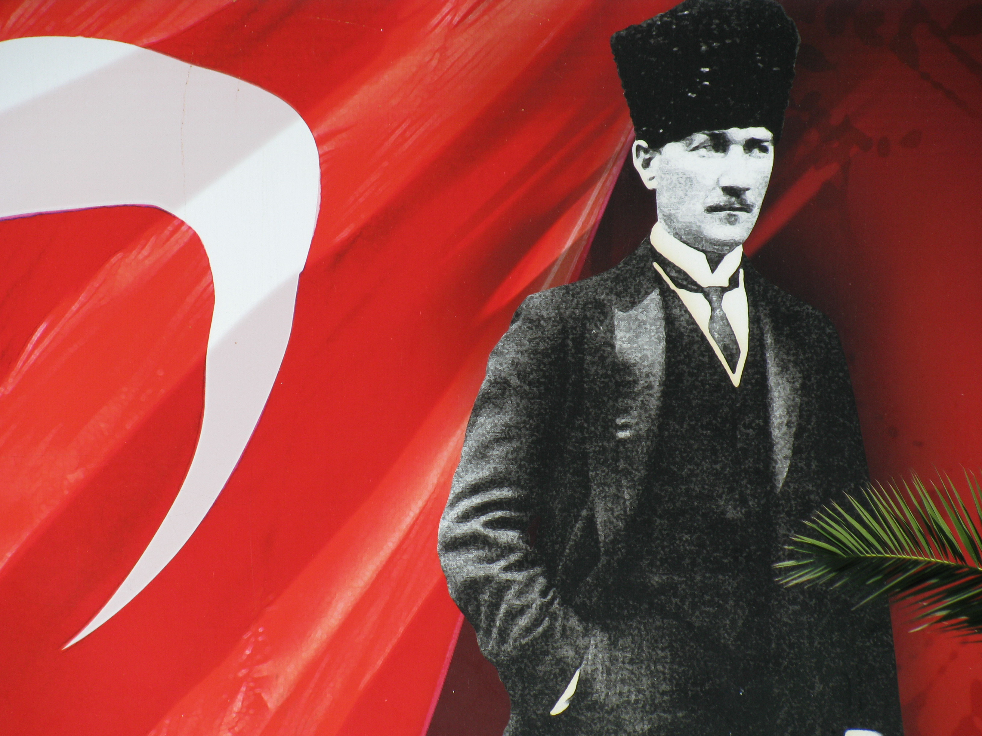 Portrait of Atatürk with Turkish flag